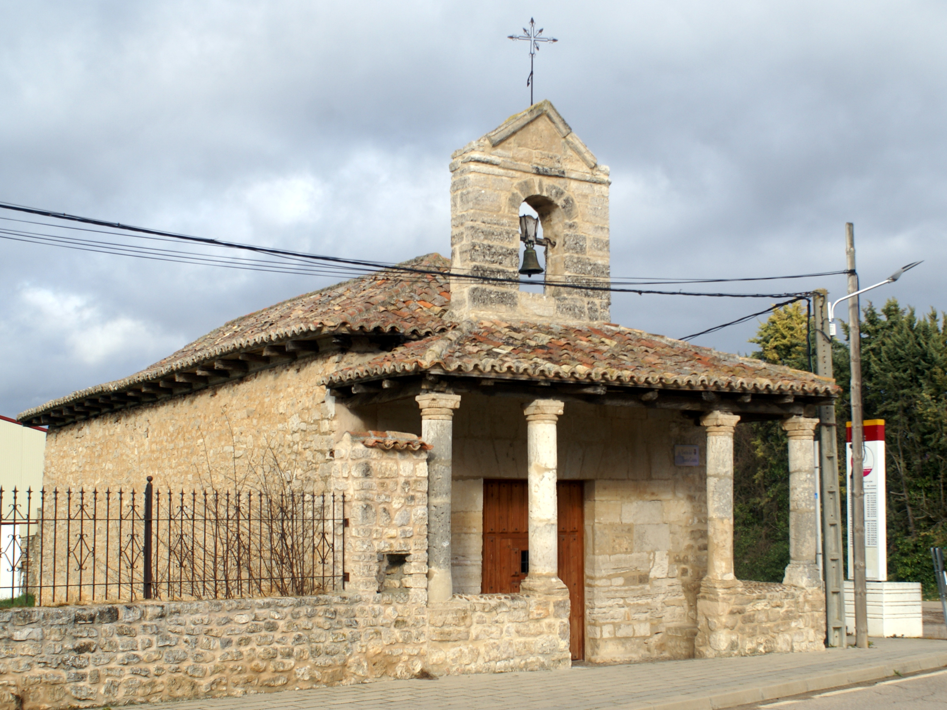 Hermitage of Holy Christ in Cubillas de Santa Marta, Valladolid, Spain.